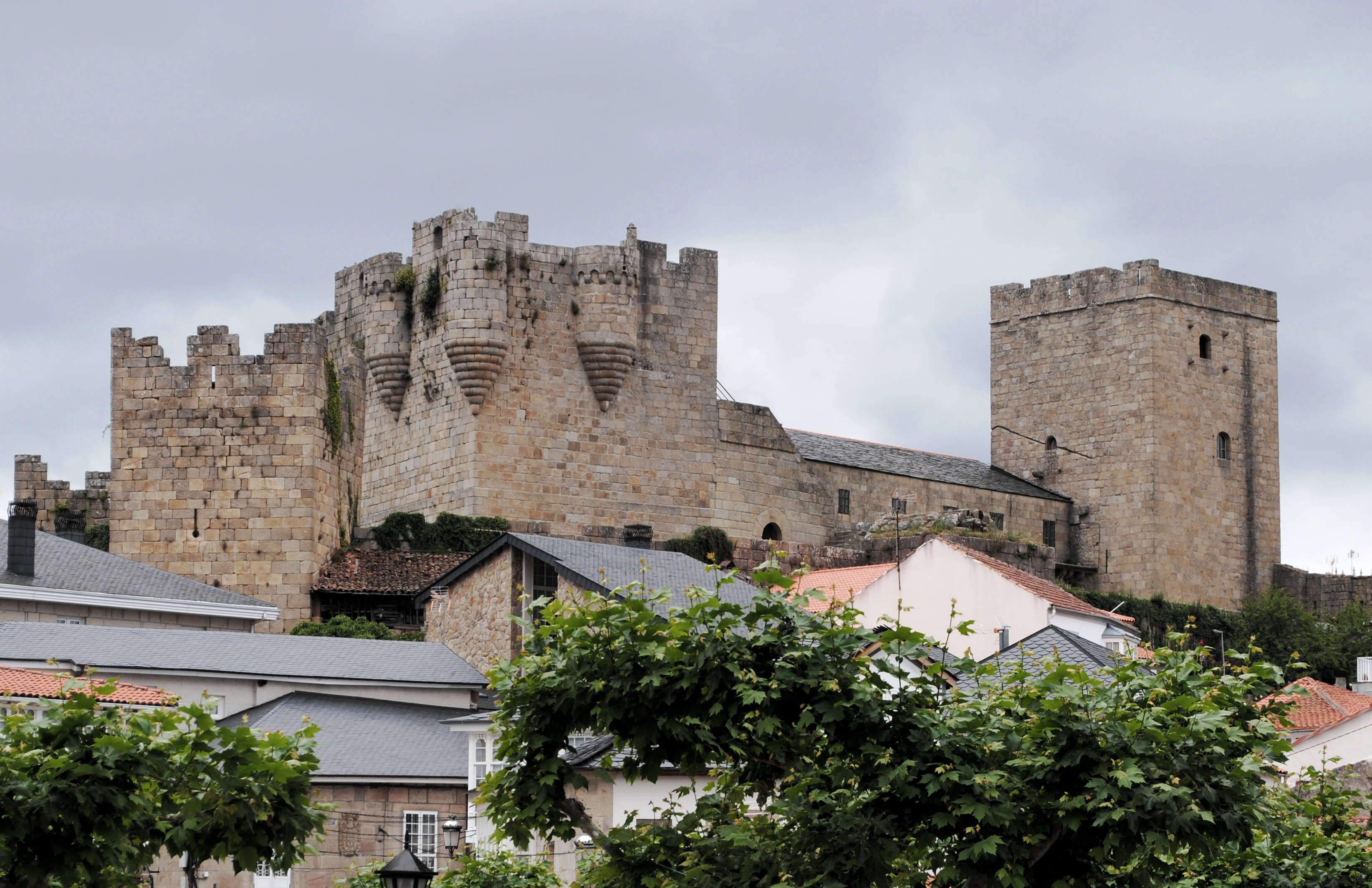 see title